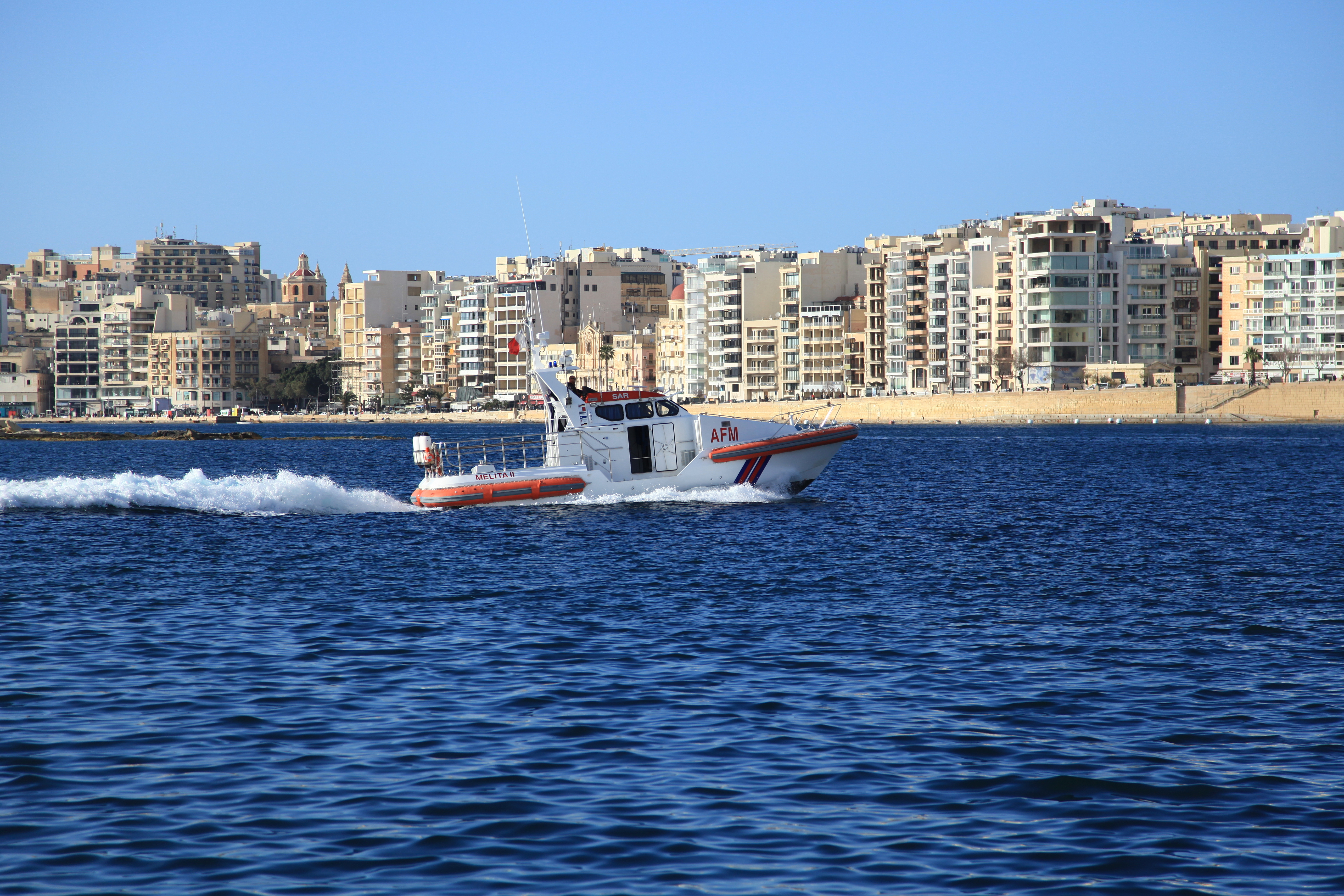 View from Triq il-Lanċa in Valletta to Triq Ix-Xatt in Sliema